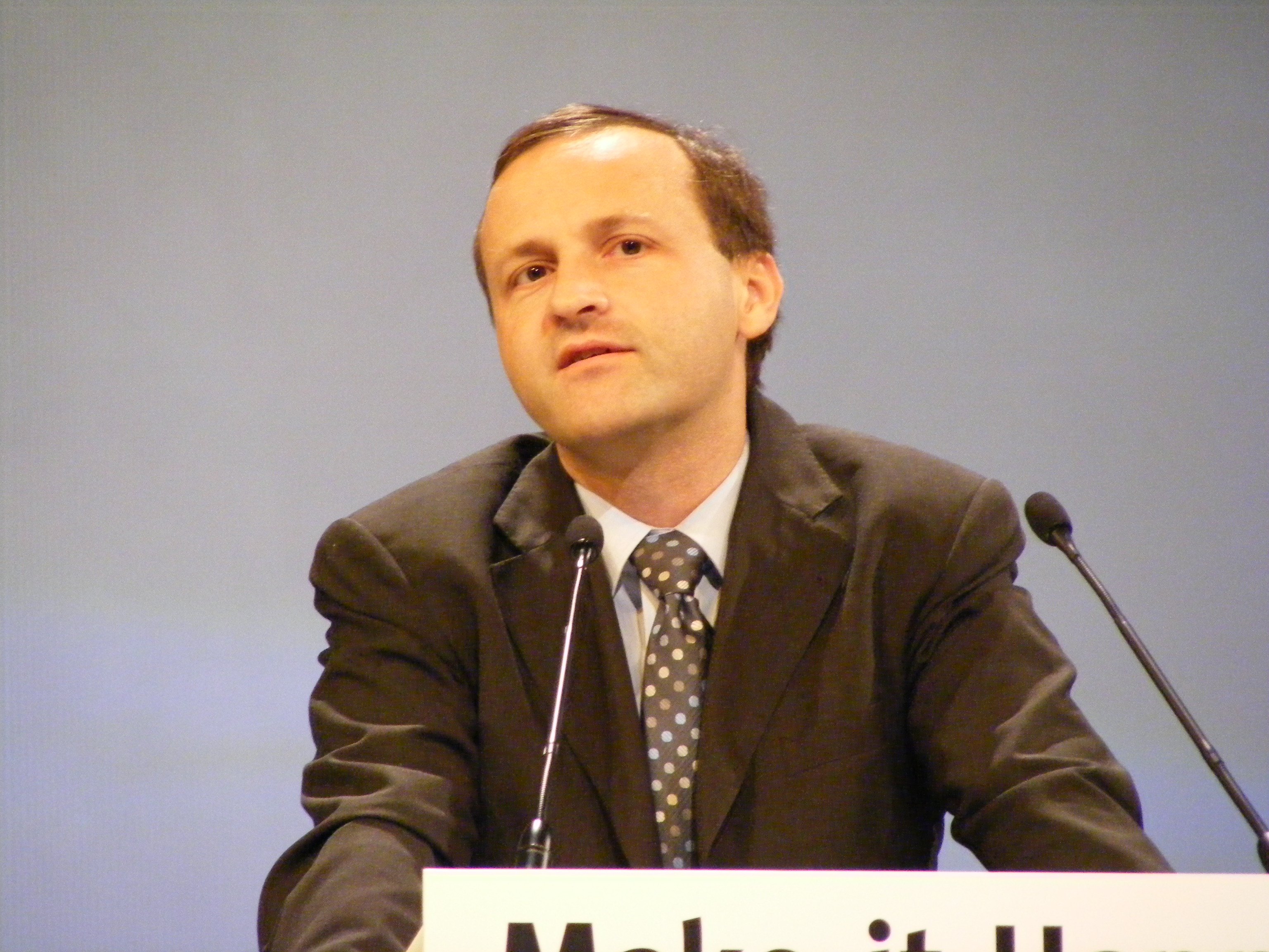 Steve Webb MP makes a speech at the Liberal Democrat Autumn conference 2008.